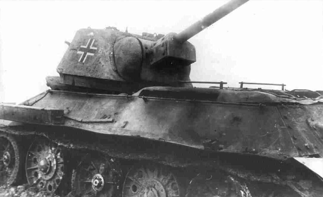 T-34 used by Wehrmacht (division "Das Reich") and hit by Soviet artillery